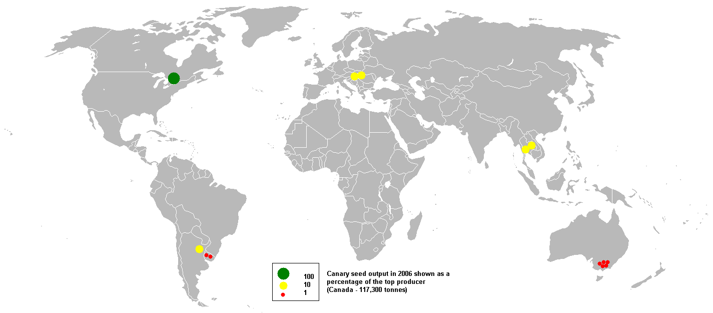 This bubble map shows the global distribution of canary seed output in 2006 as a percentage of the top producer (Canada - 117,300 tonnes). This map is consistent with incomplete set of data too as long as the top producer is known. It resolves the accessibility issues faced by colour-coded maps that may not be properly rendered in old computer screens. Based on :Image:BlankMap-World.png